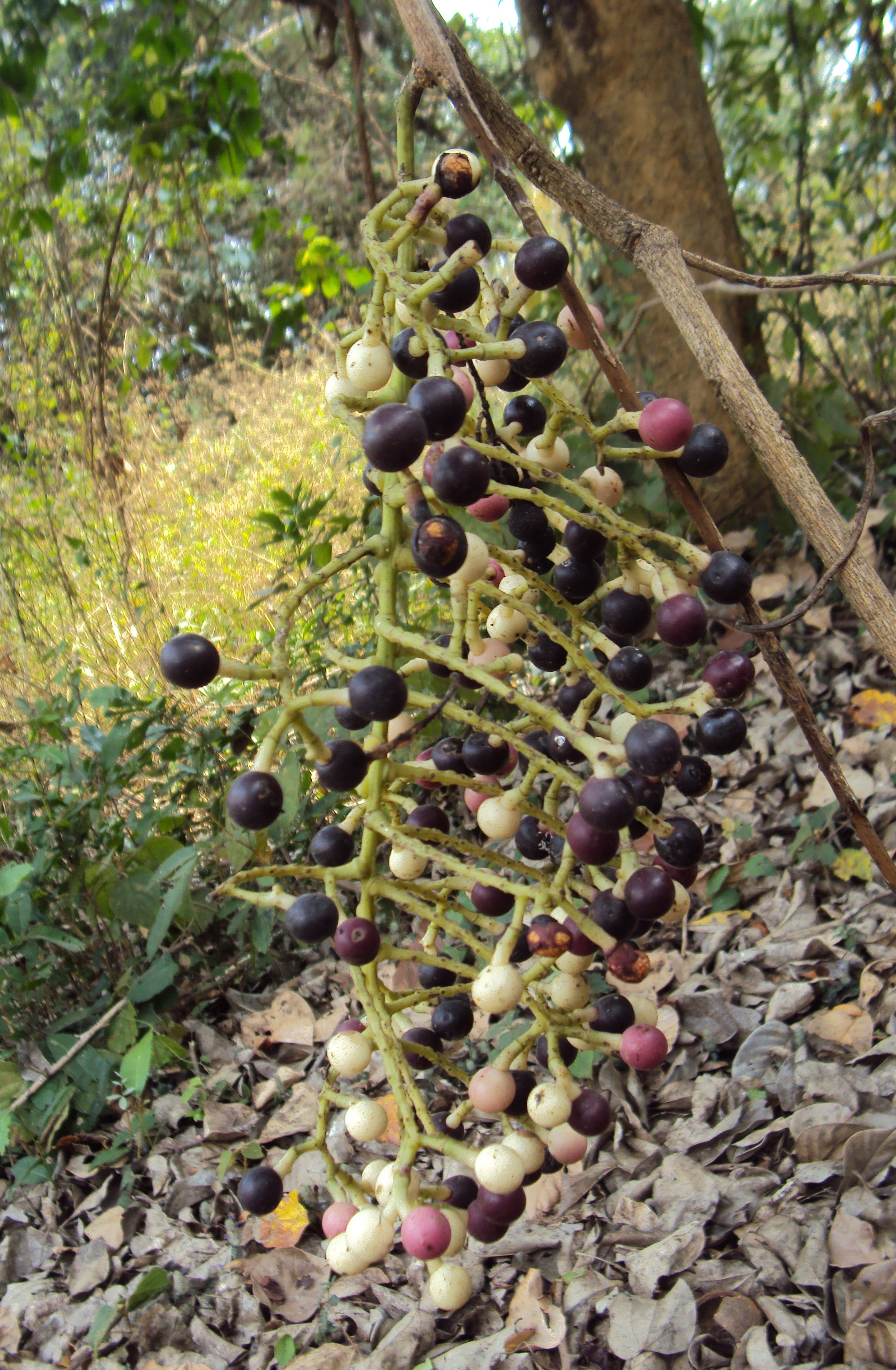 Anamirta cocculus